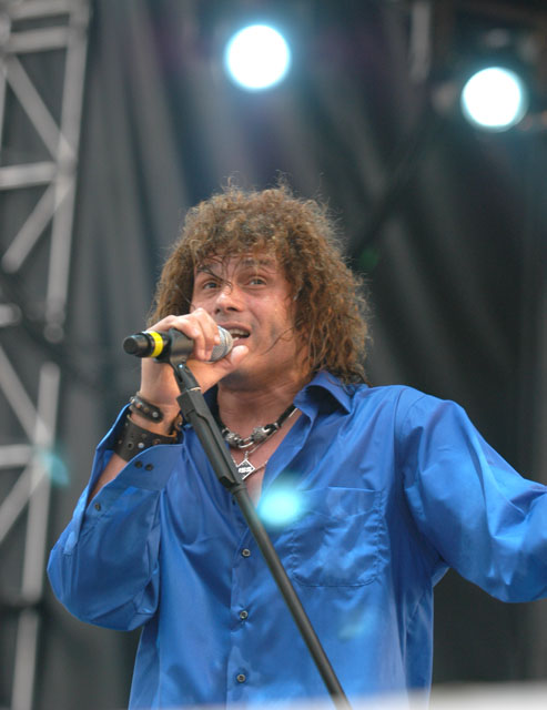 Photo of Jeff Scott Soto, created by Mark Bentley on 12 May 2007